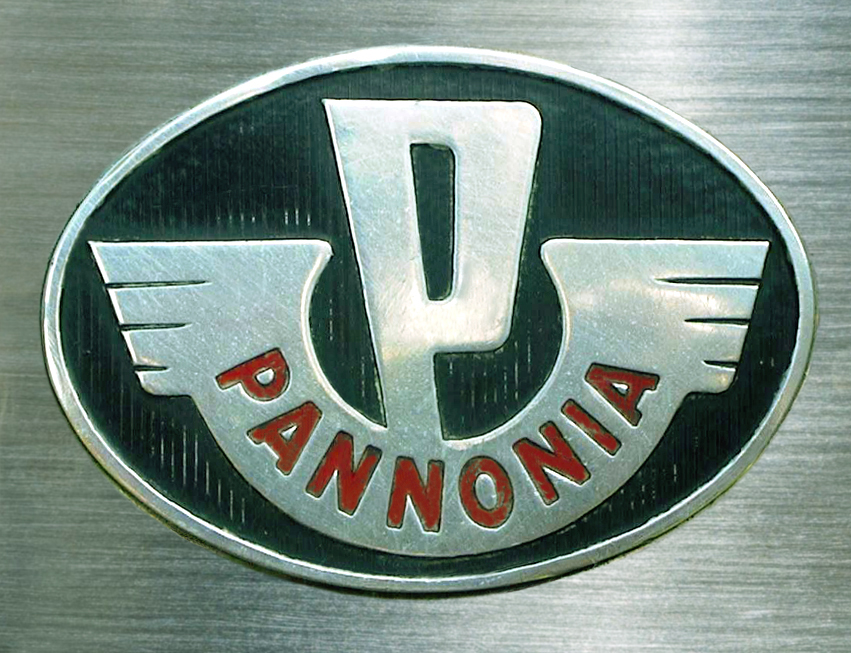 Pannonia motorcycles emblem